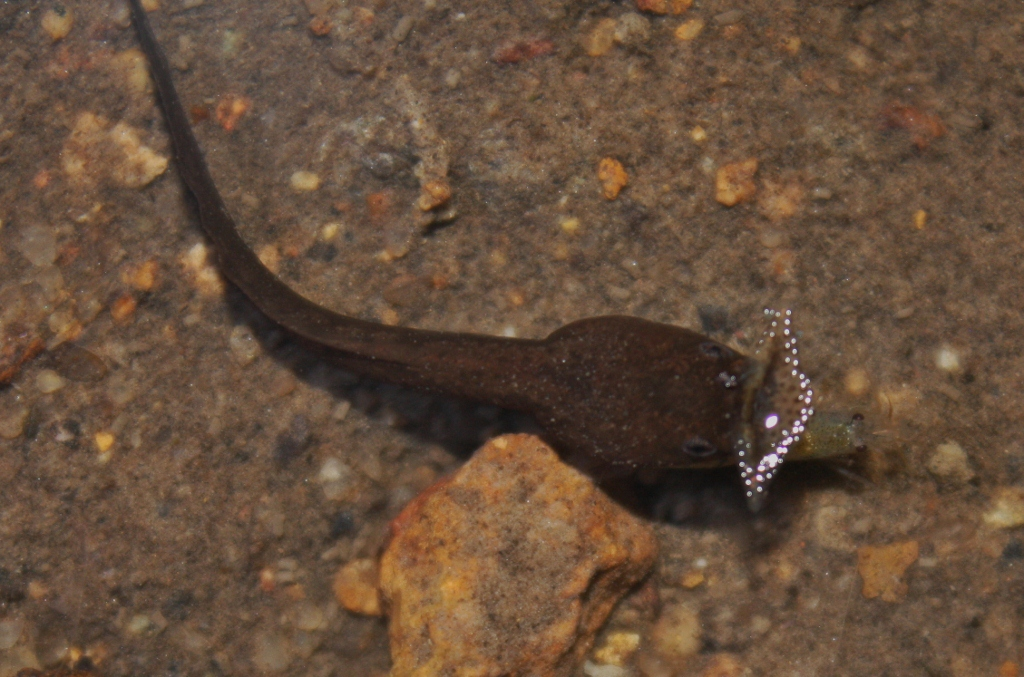 Taken in Pok Fu Lam Country Park.